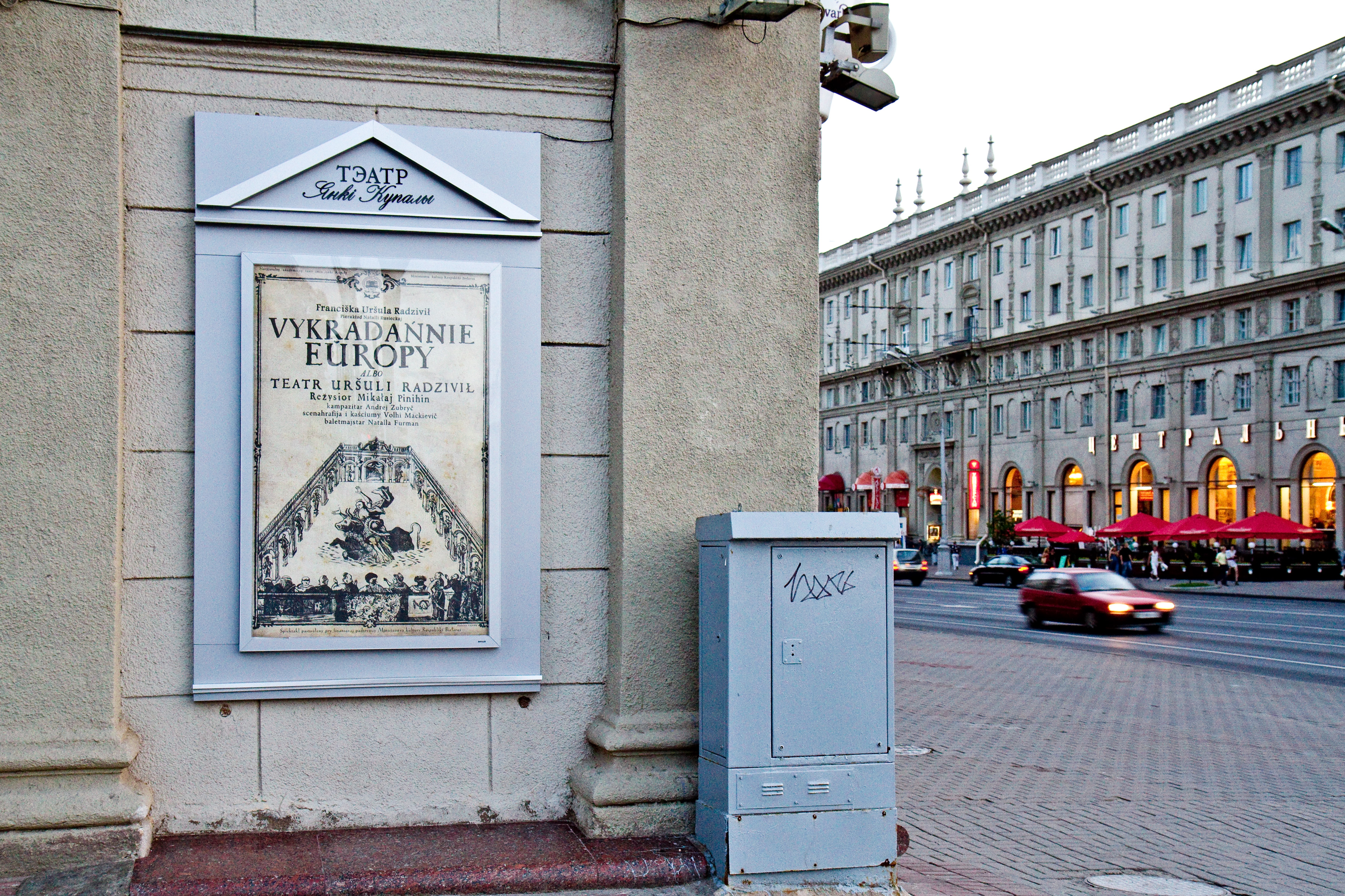 Theater poster of Yanka Kupala National Academic Theatre. Crossroad of Engels str. and Niezaležnaści ave., Minsk, Belarus.